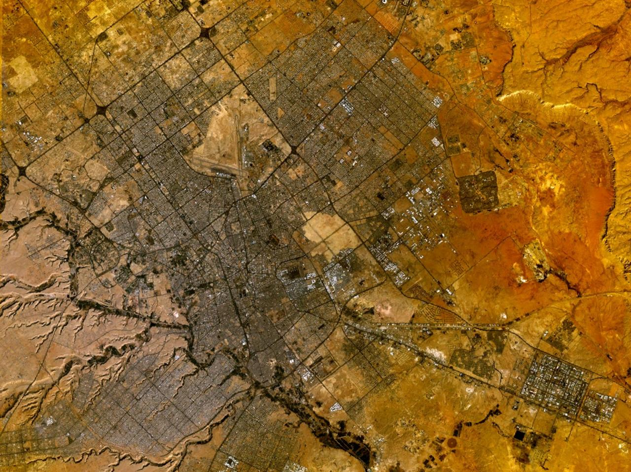 Ar-Riyad, Saudi-Arabia